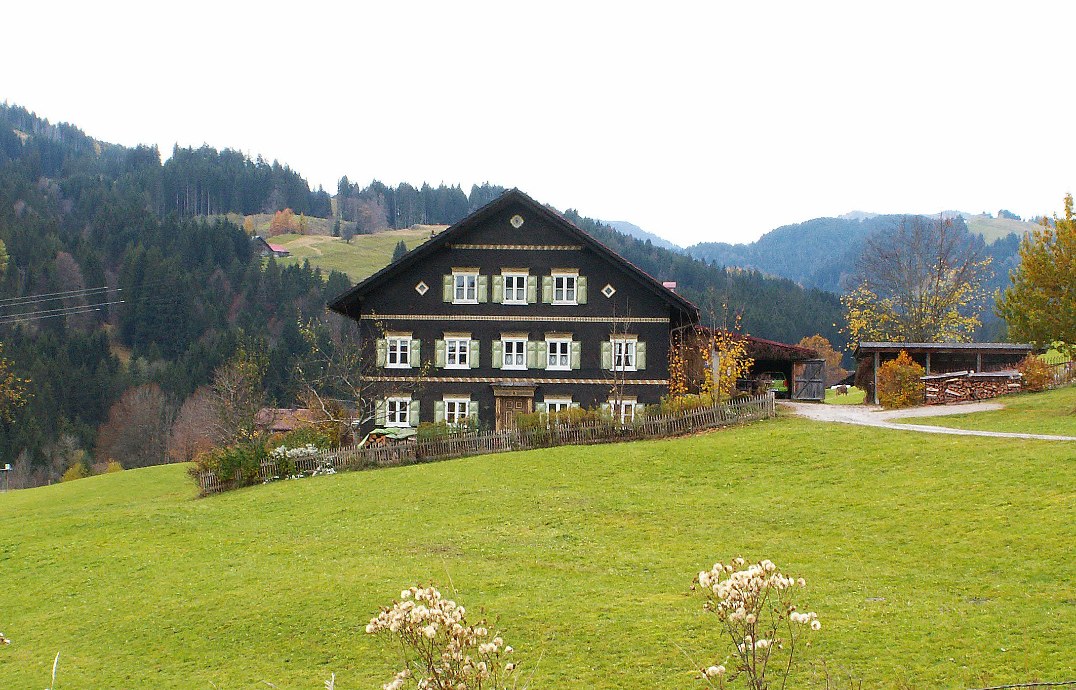 Typisches Bauernhaus im Gunzesrieder Tal